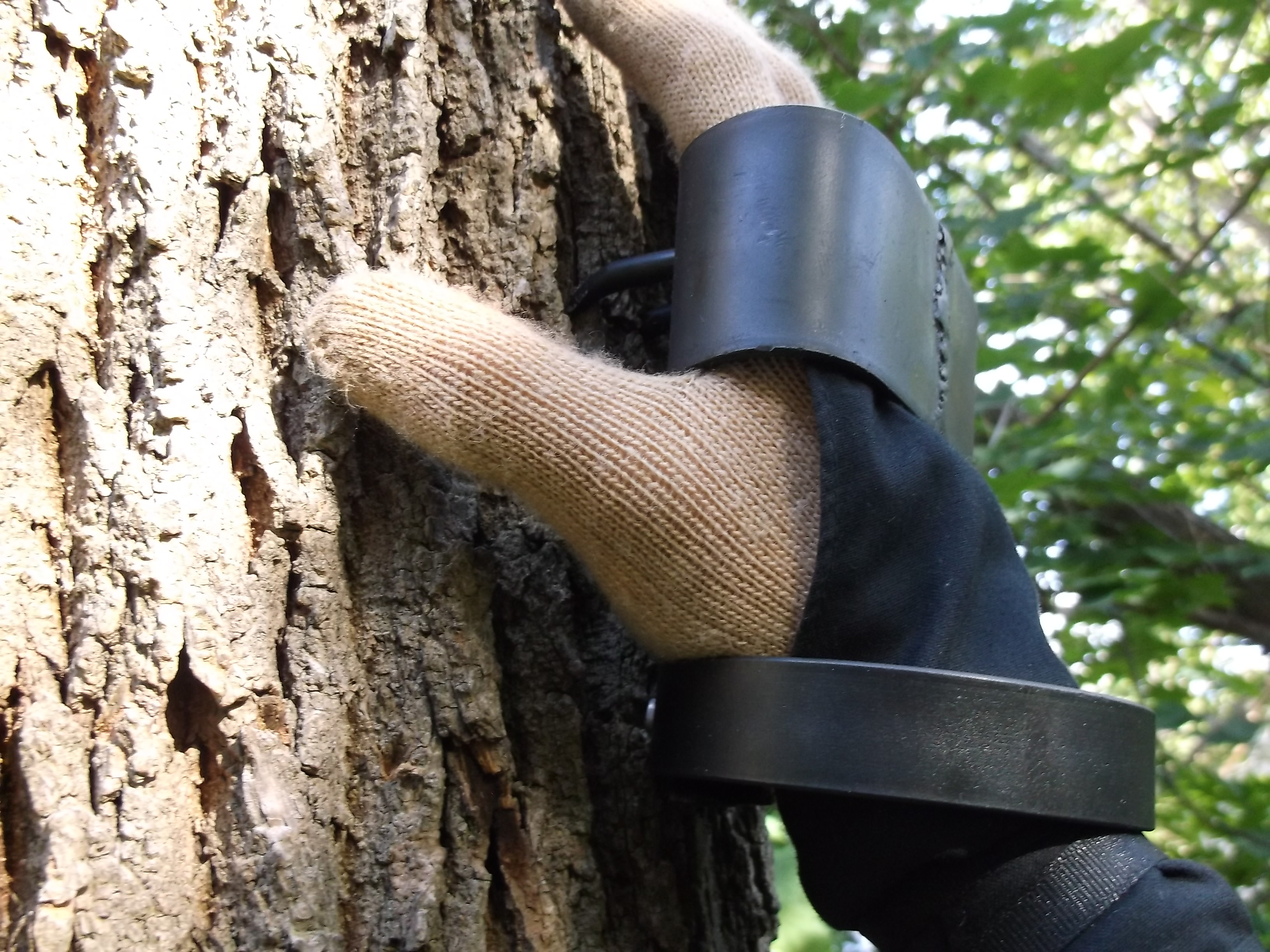 Shuko I sometimes make. Crafted in the traditional design, made of steel, claws made of high carbon steel and heat treated, strap made of 3000lb test nylon.